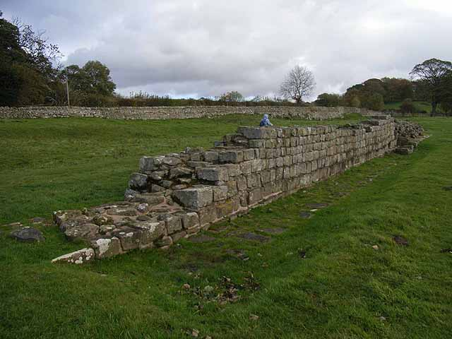 Hadrian's Wall at Planetrees Hadrian's Wall Hadrians_Wall was originally built to a 3-metre wide design; subsequently changed to 2-metre wide in the interests of speed of construction, and presumably economy. Here a section of "narrow" (2 metre) wall can be seen standing on "broad" (3 metre) foundations. This is one of the easternmost parts of the Wall still standing, and lies on Hadrian's Way National Trail